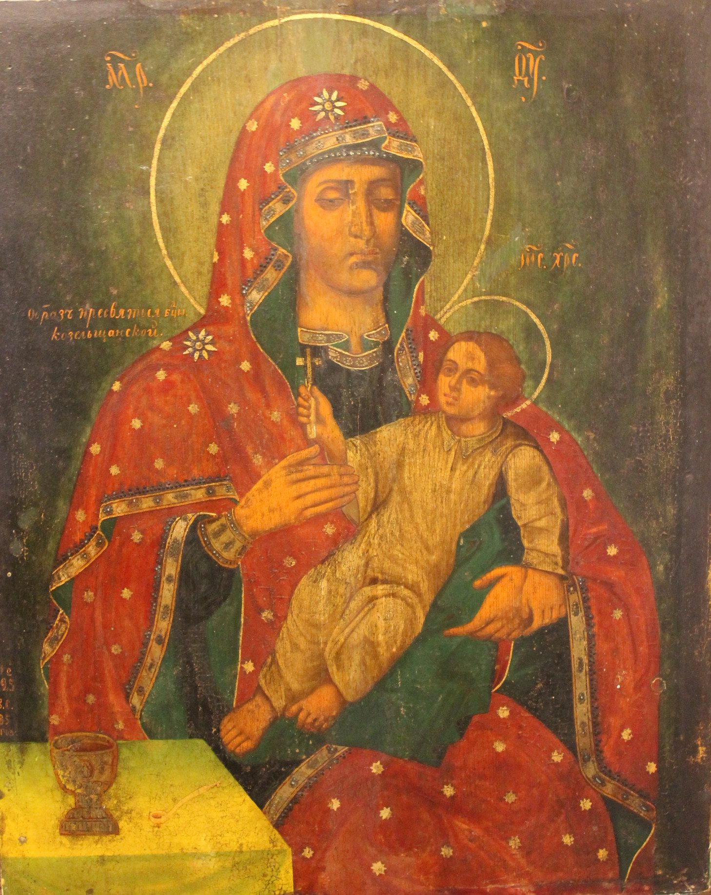 The Holy Virgin of Kozelshchyna. The 19th c. Radomysl Castle, Ukraine